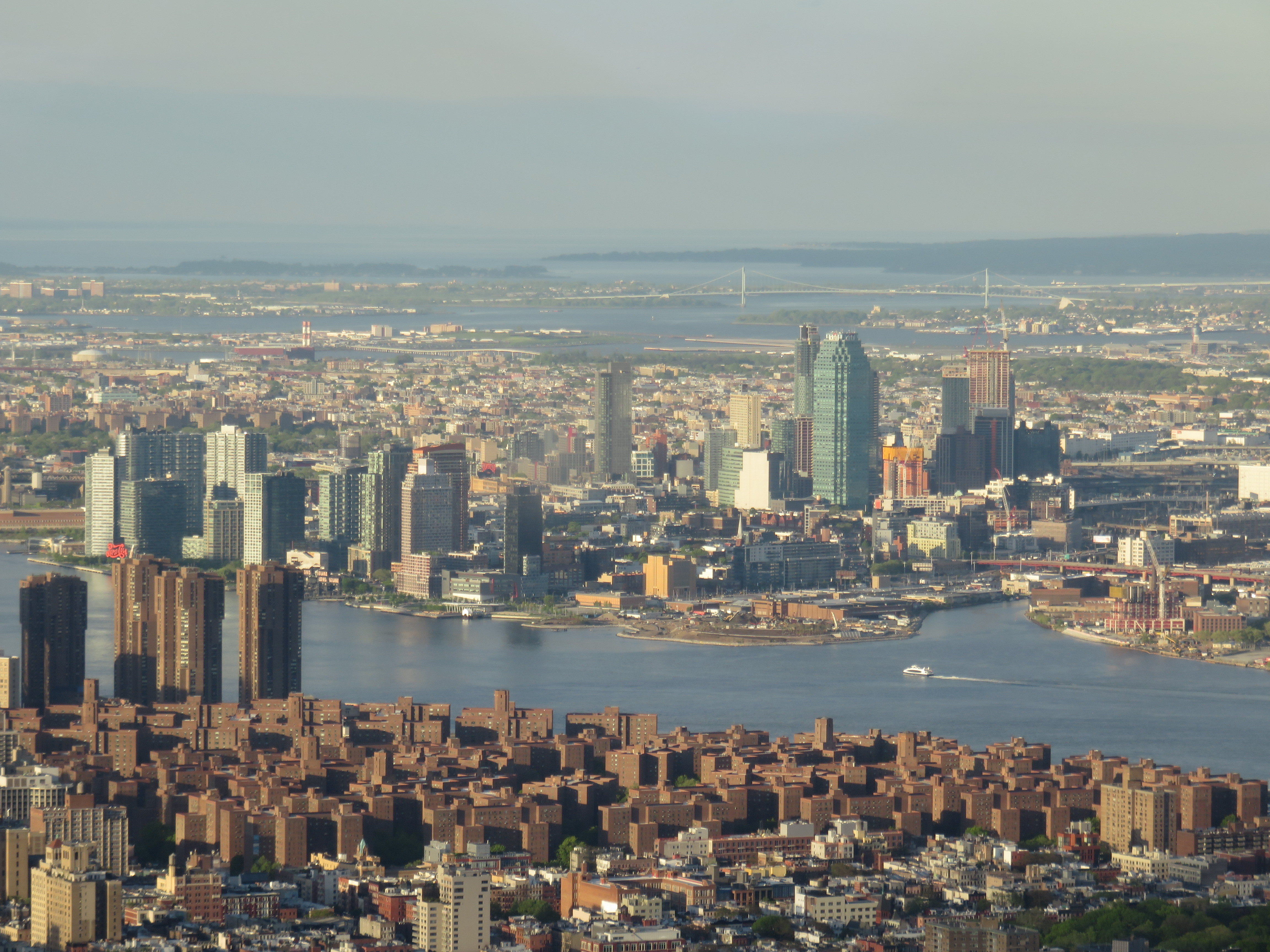 Long Island City and the Throgs Neck Bridge from One World Observatory in 2017